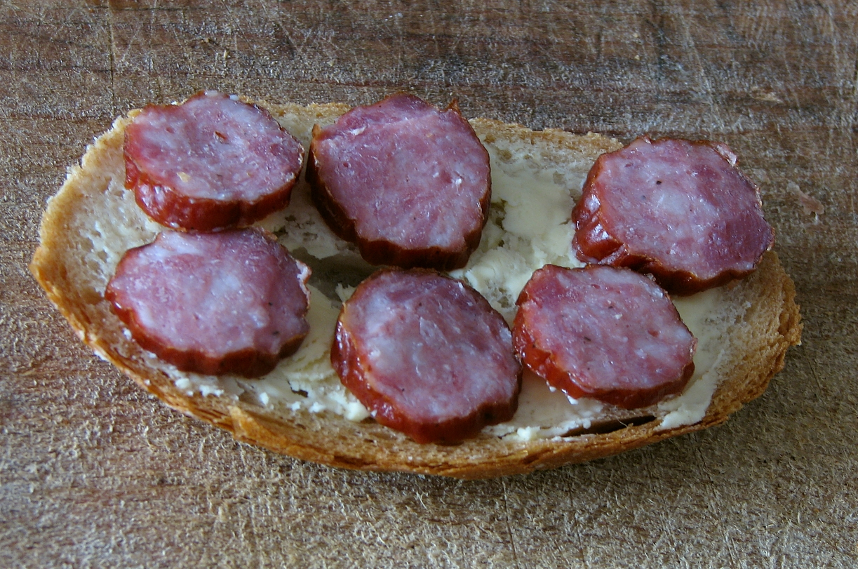 myśkliwska, Polish sausage, kiełbasa